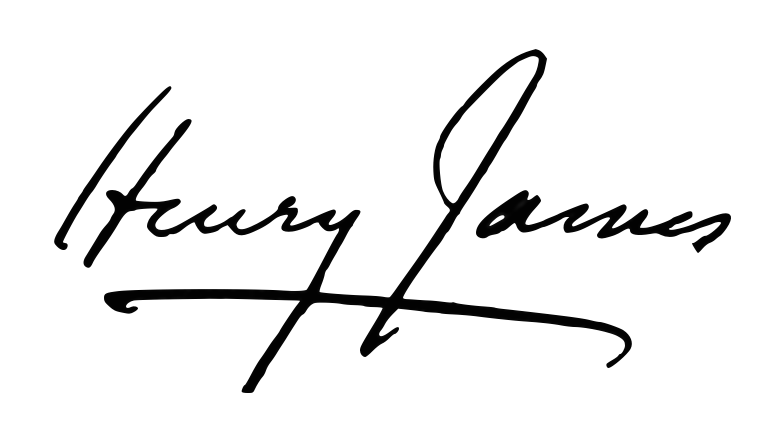 This is the signature of Henry James as it appeared in The Novels and Tales of Henry James '1, published in 1907.